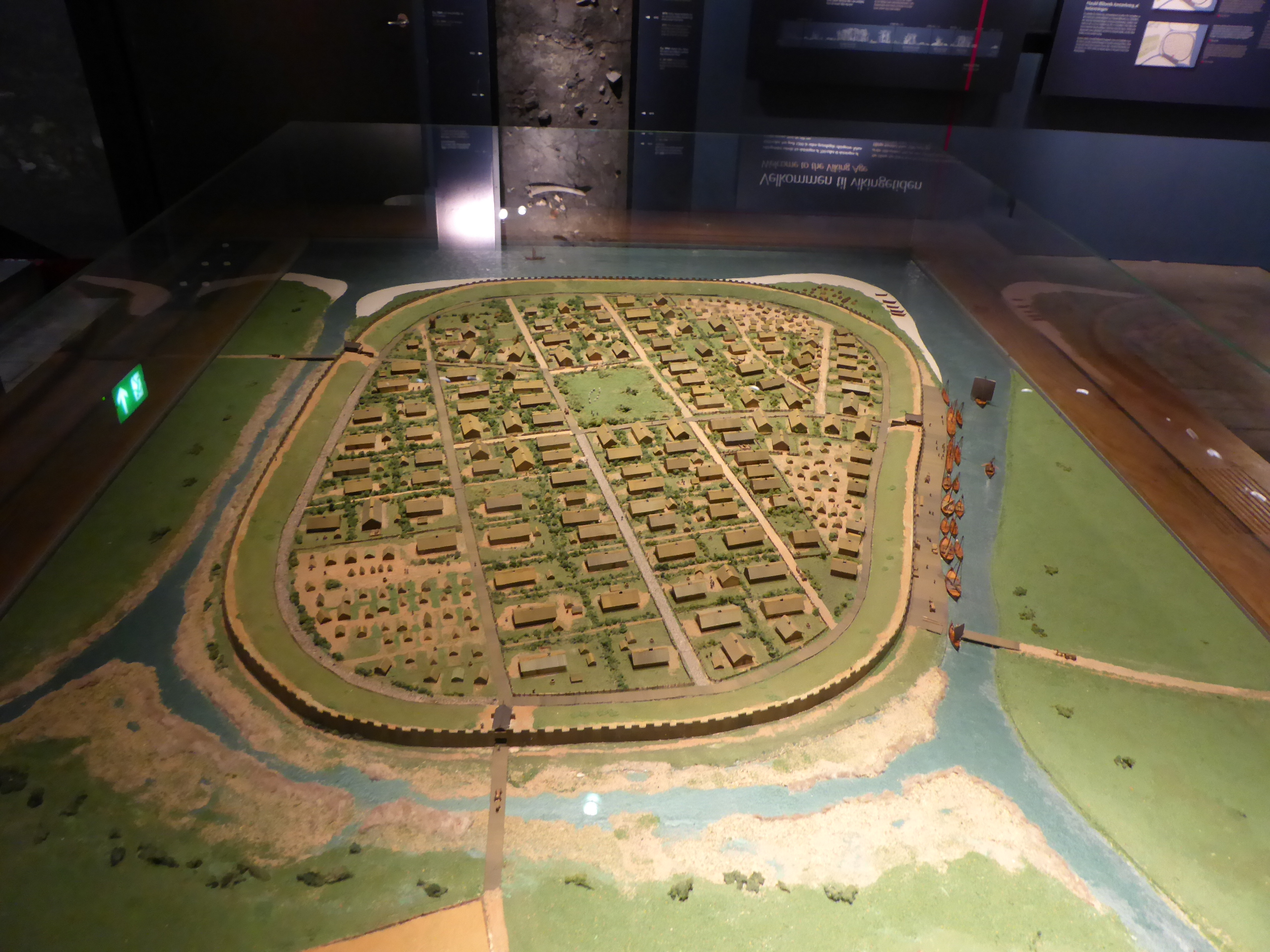 Model in Vikingemuseet in Aarhus in Denmark showing how Aarhus may have looked like in the Viking Age.